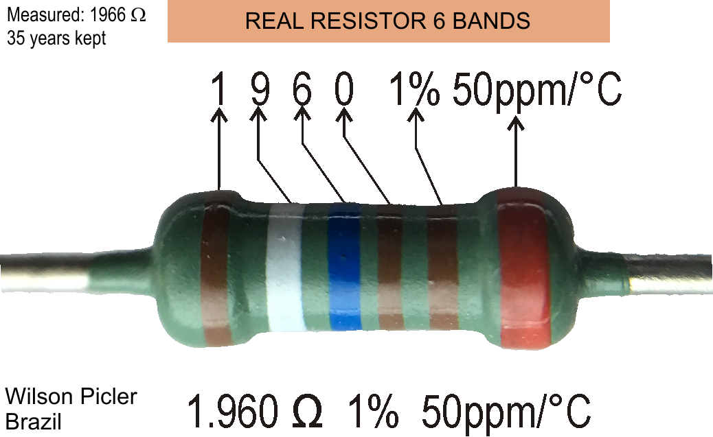 6 Bands Resistor - real component 70's , 1960 Ohms 1% 50ppm Metal Film